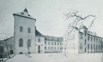 Collegium Liborianum in Paderborn, Germany, 1925